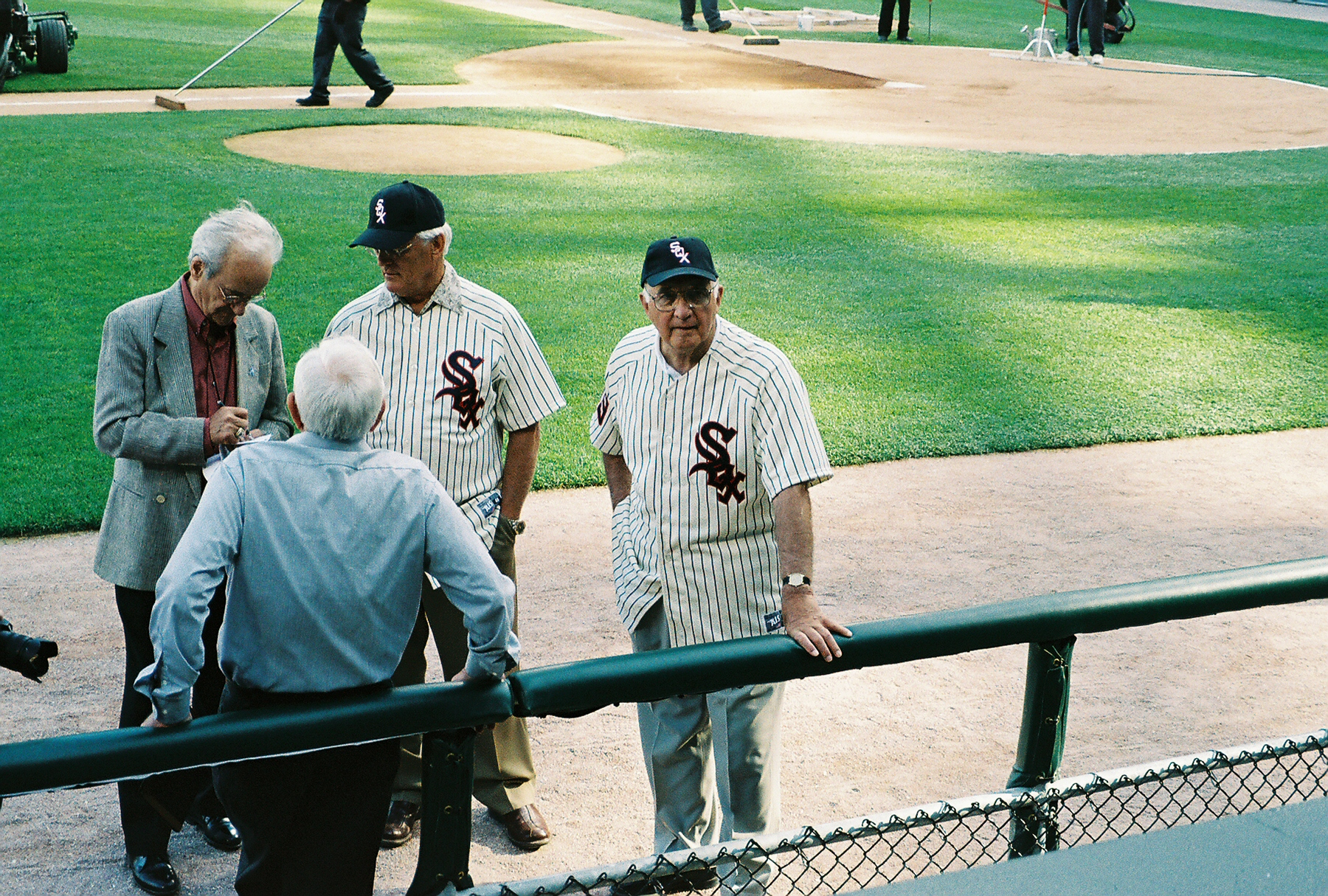 From left (facing camera): Roland Hemond, Claude Raymond and Billy Pierce. The Turn Back the Clock Game commemorated the Los Angeles Dodgers first official games vs. the White Sox since the 1959 World Series on June 18, 2005.